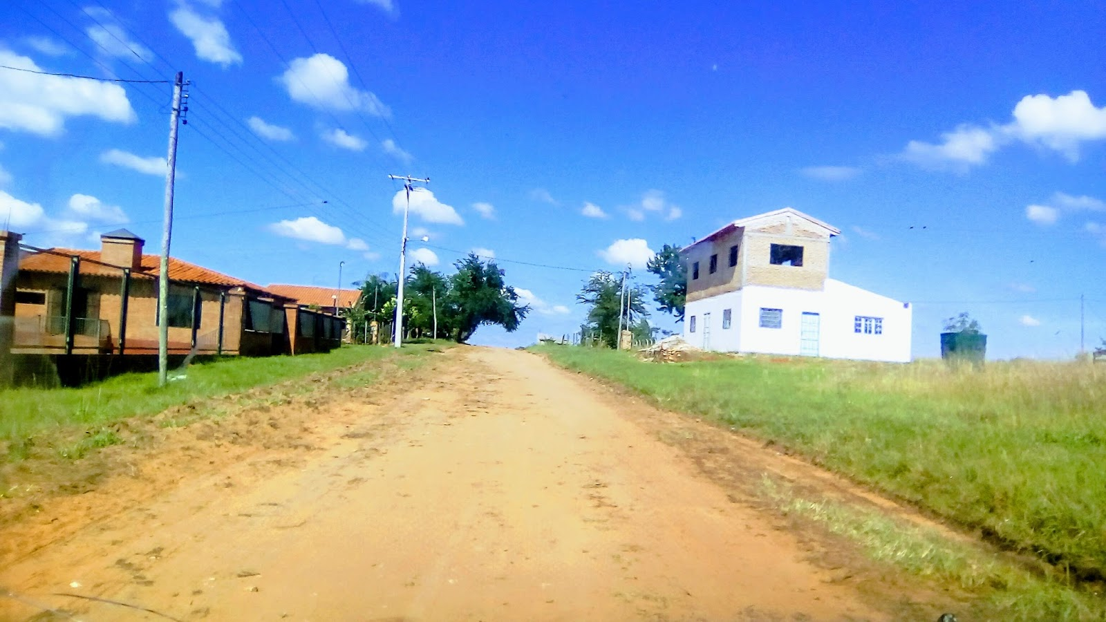 neighborhood